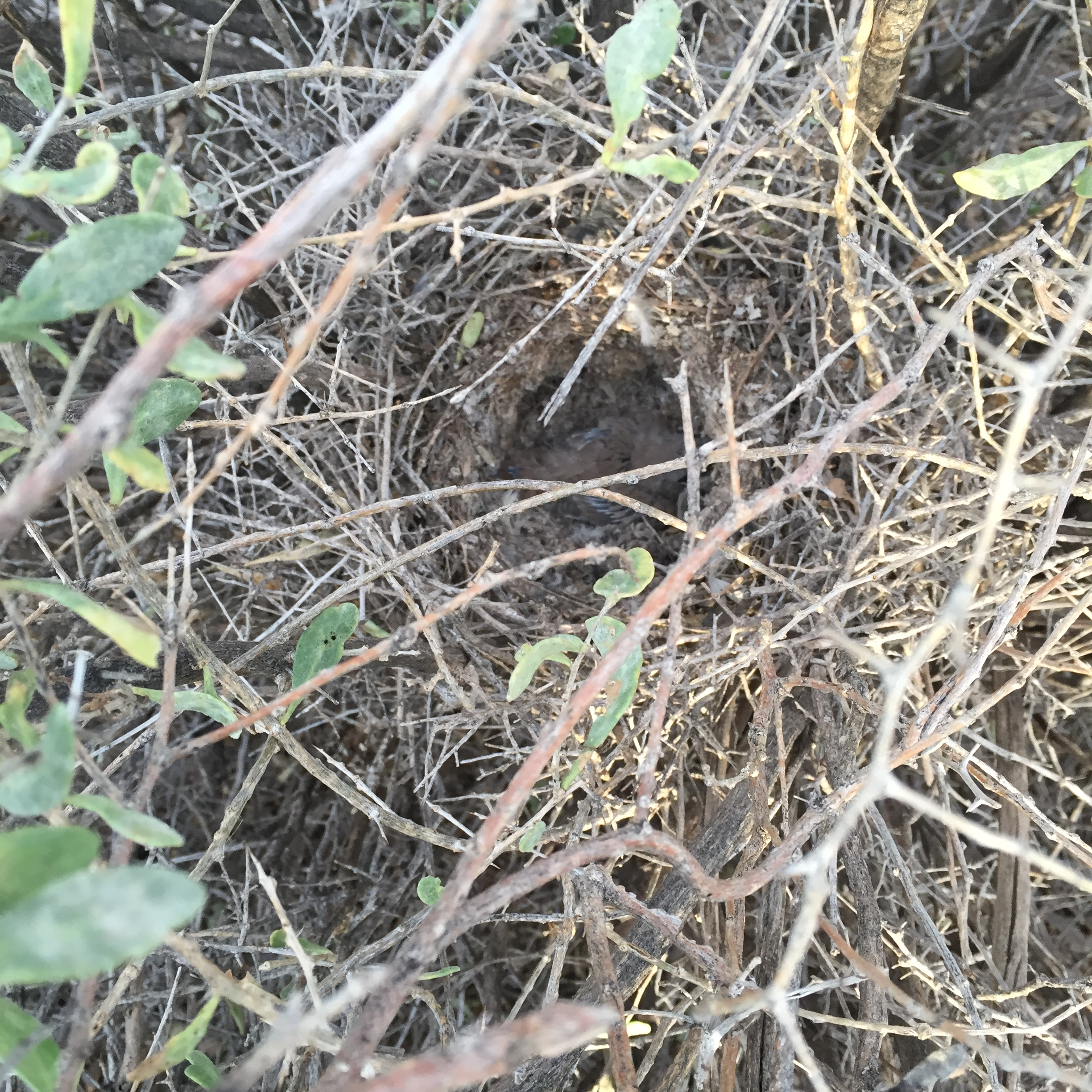 Le Conte's Thrasher nest with chick, Baseline Rd. and Salome Hwy., Maricopa Co. AZ